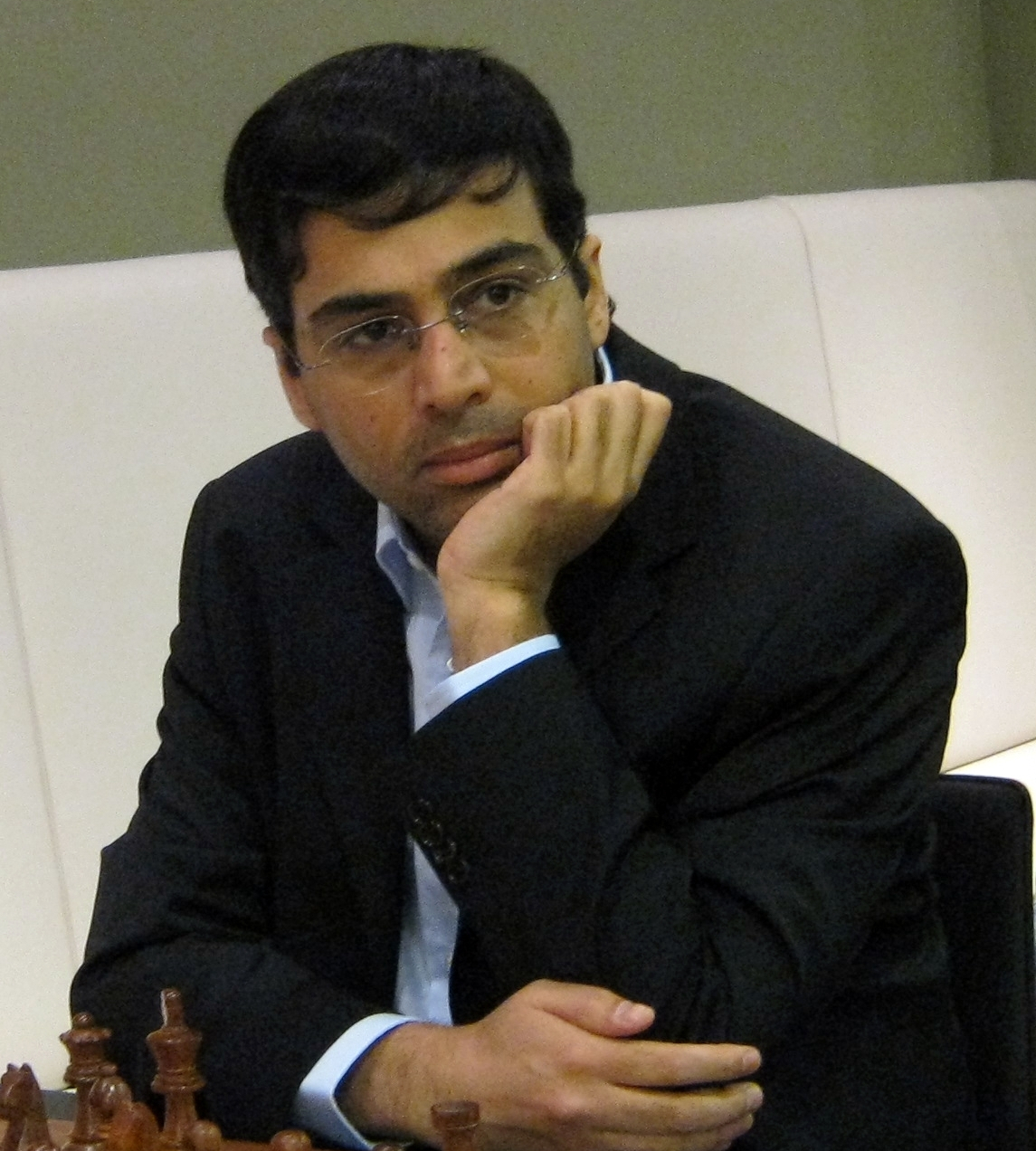 Viswanathan Anand, ex-chess world champion, cut version of